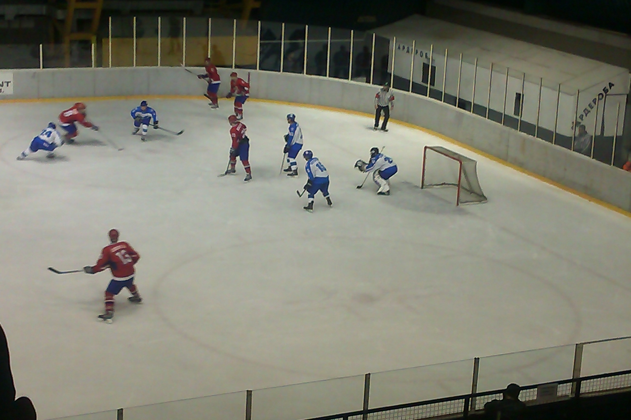 2014 IIHF World Championship Division II Serbia - Israel 10:6 in Belgrade 10. april 2014Српски (ћирилица): Светско првенство у хокеју на леду 2014 — Дивизија II, Србија - Израел 10:6 у Београду 10. априла 2014